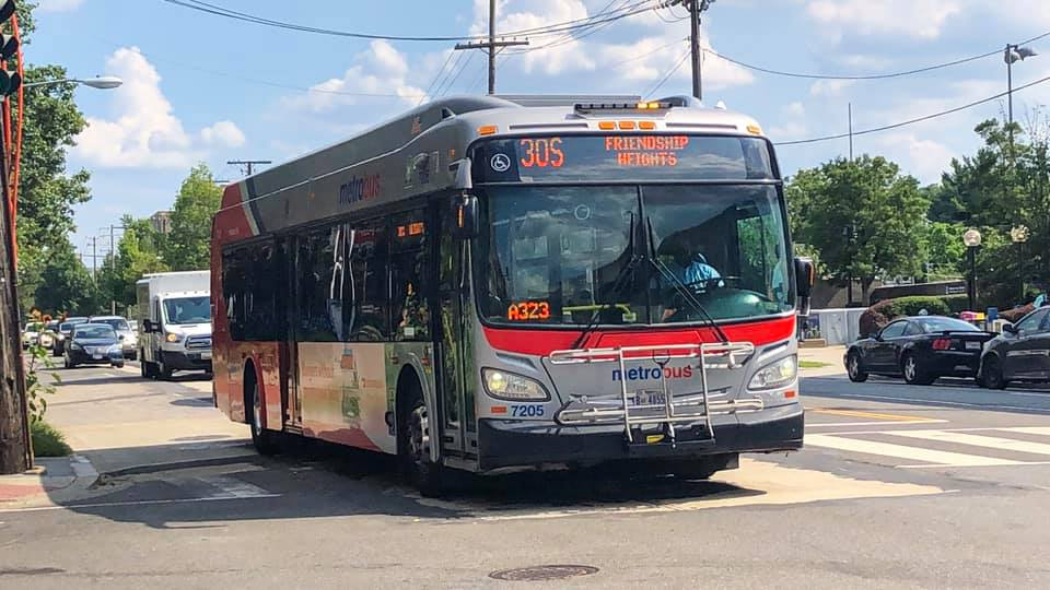 WMATA New Flyer XDE40 7205 on Route 30S in Friendship Heights along Wisconsin Avenue